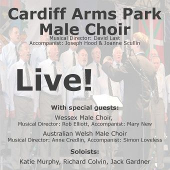 Cover of the Cardiff Arms Park Male Choir CD Live!